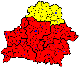 Map of Oblast Vitebsk in Belarus with district-level subdivisions